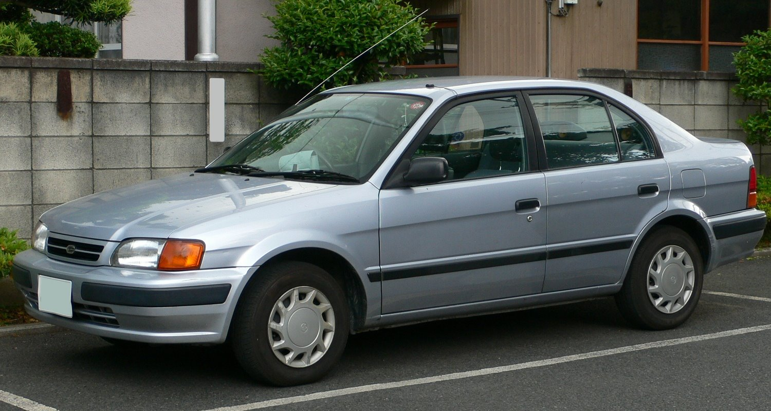 5th Toyota Corsa (1994 - 1997)